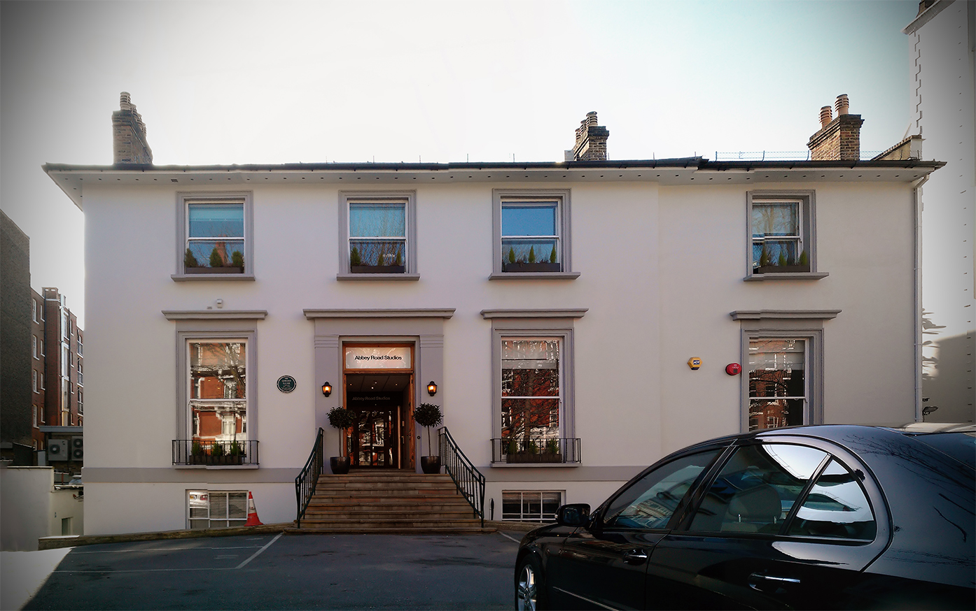 Abbey Road Studios, 2012-03-03